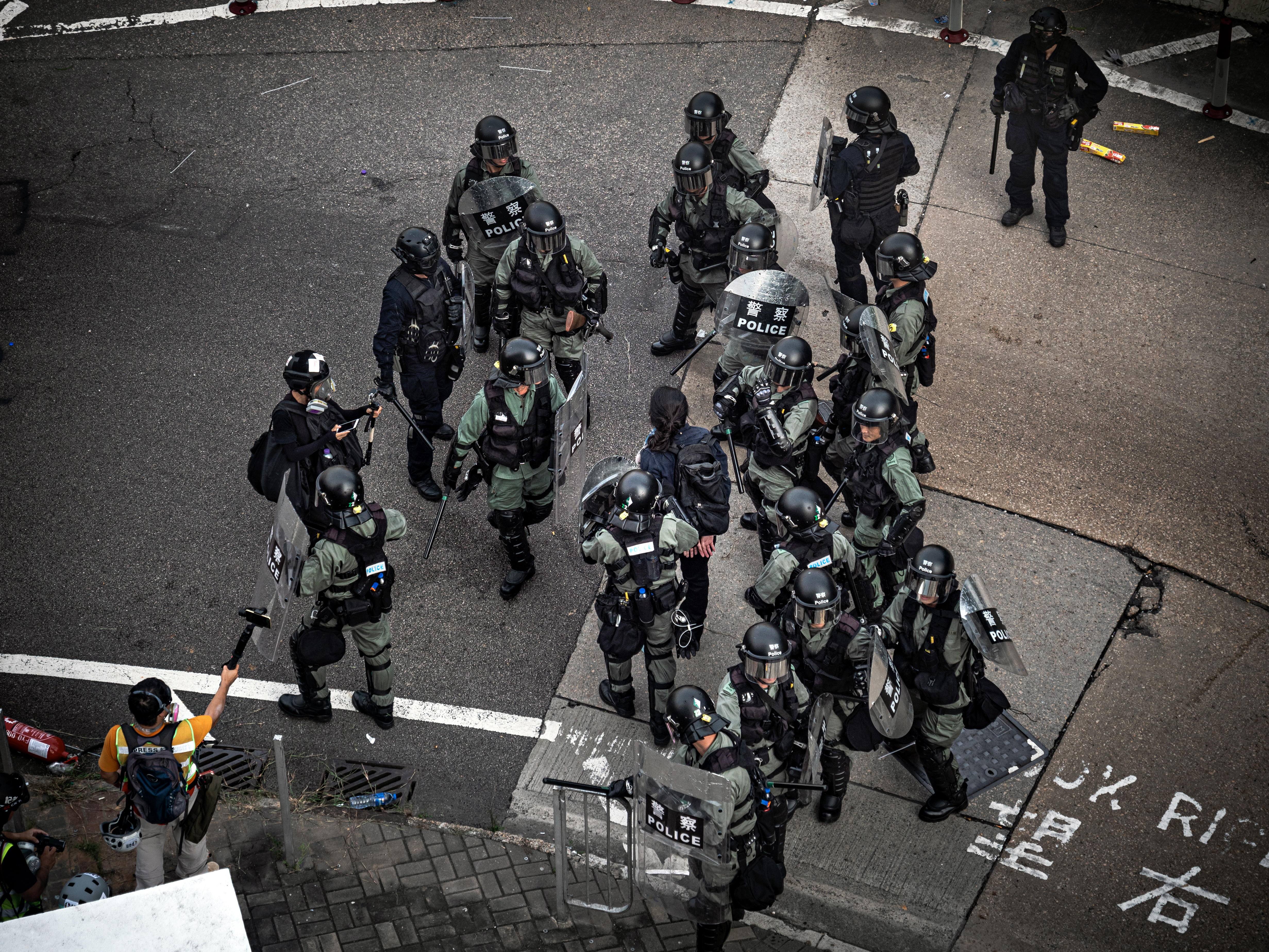 A part of the 2019 Hong Kong anti-extradition bill protests, the Kwong Tong March took place on August 24, 2019.